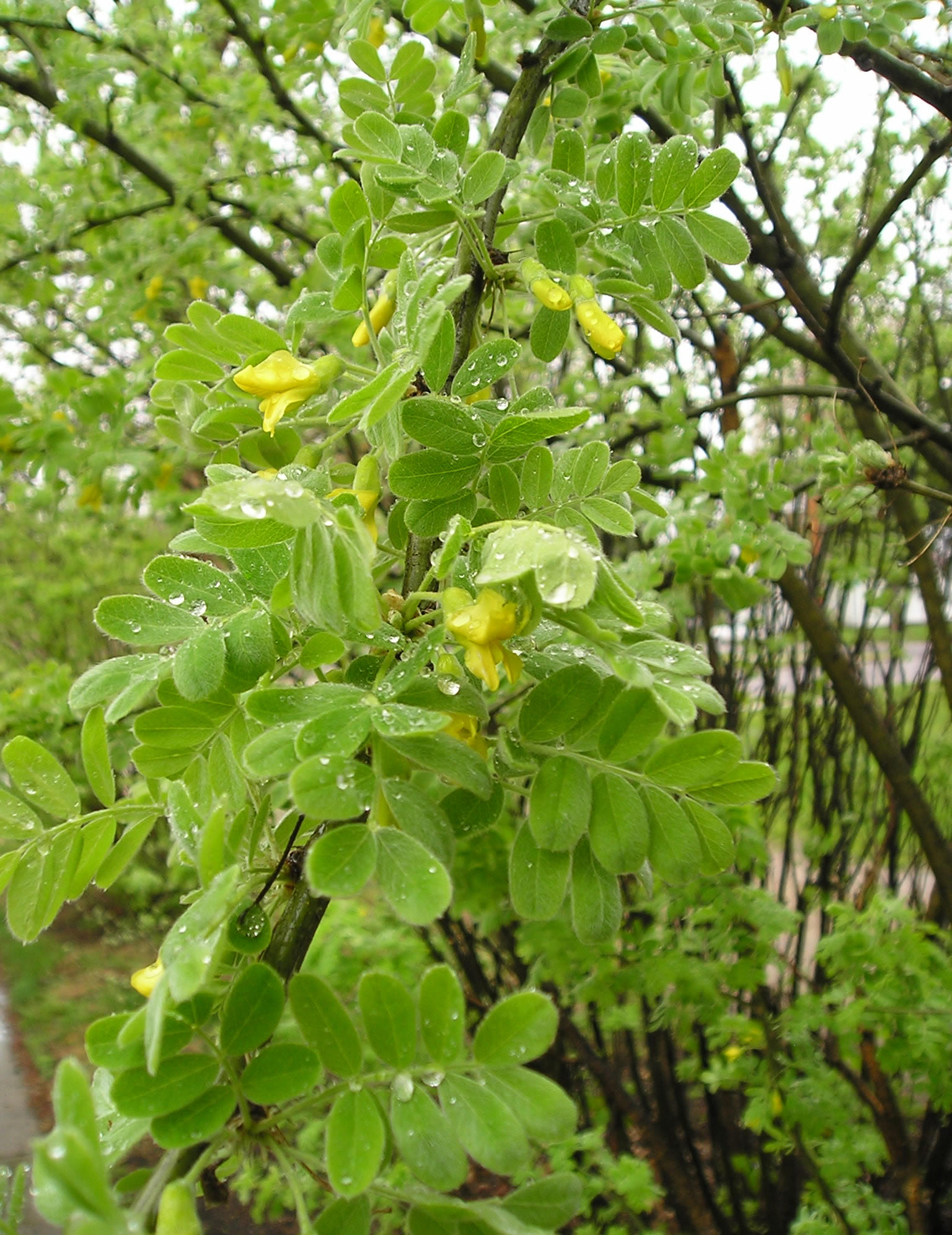 Siberian Pea Shrub Caragana arborescens Lam.